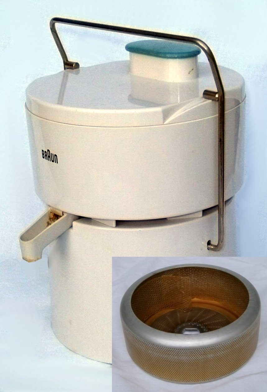 Juicer with cylindrical centrifuge Braun MP31